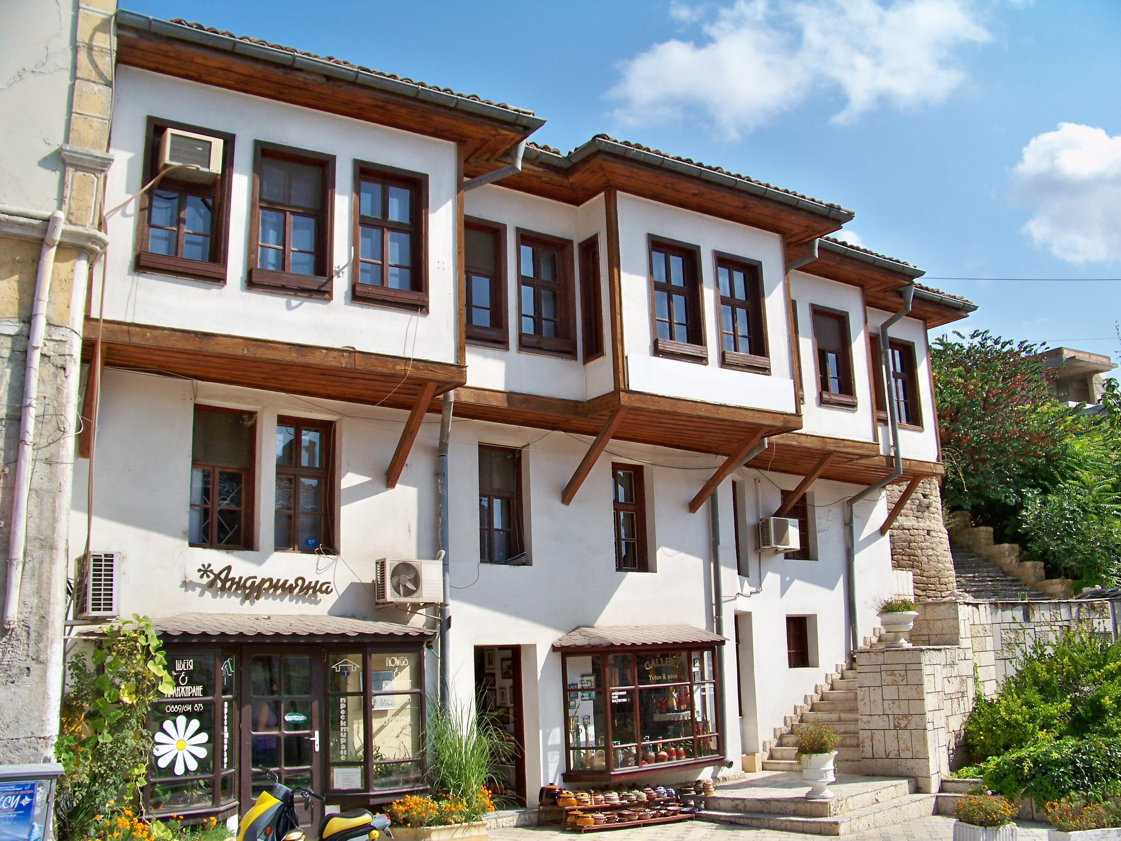 Is a Black Sea coastal town and seaside resort in the Southern Dobruja area of northeastern Bulgaria.